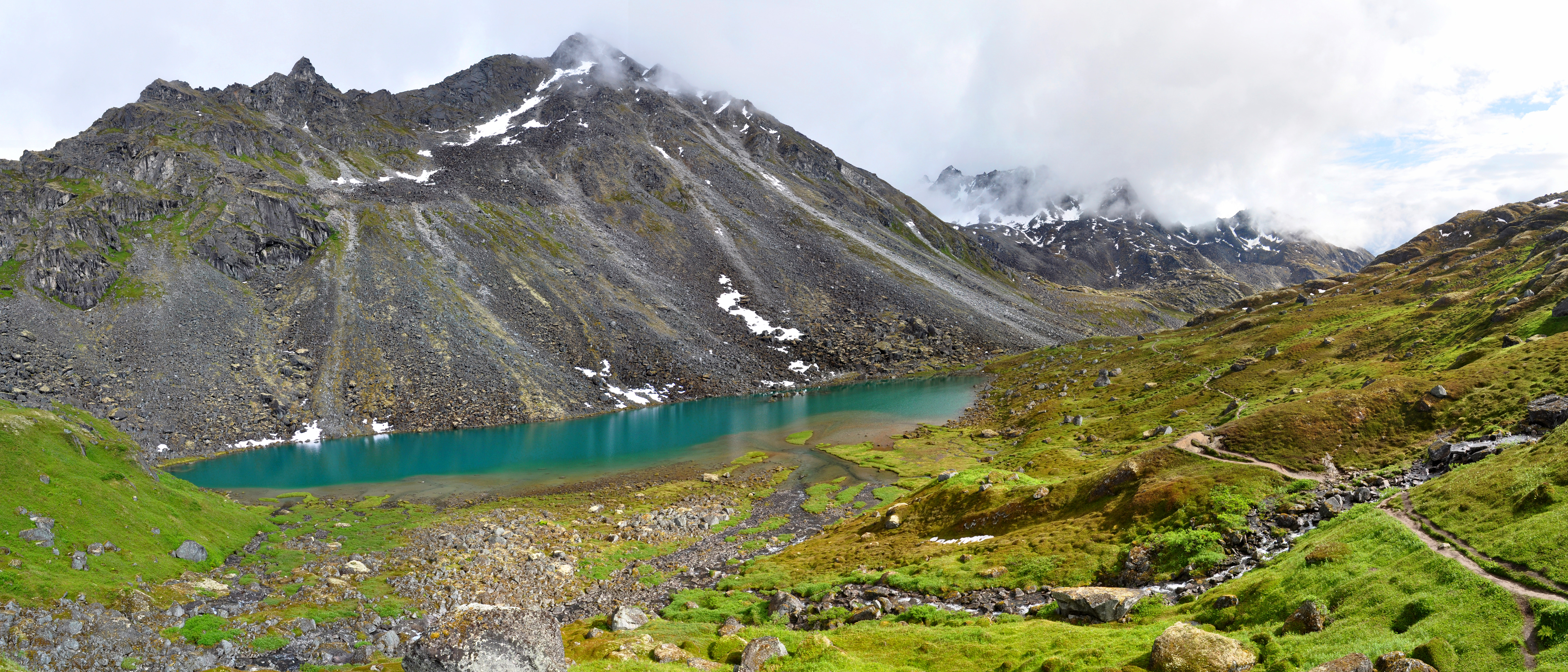 Lower Reed Lake, one of the two Reed Lakes. Talkeetna Mountains, Alaska